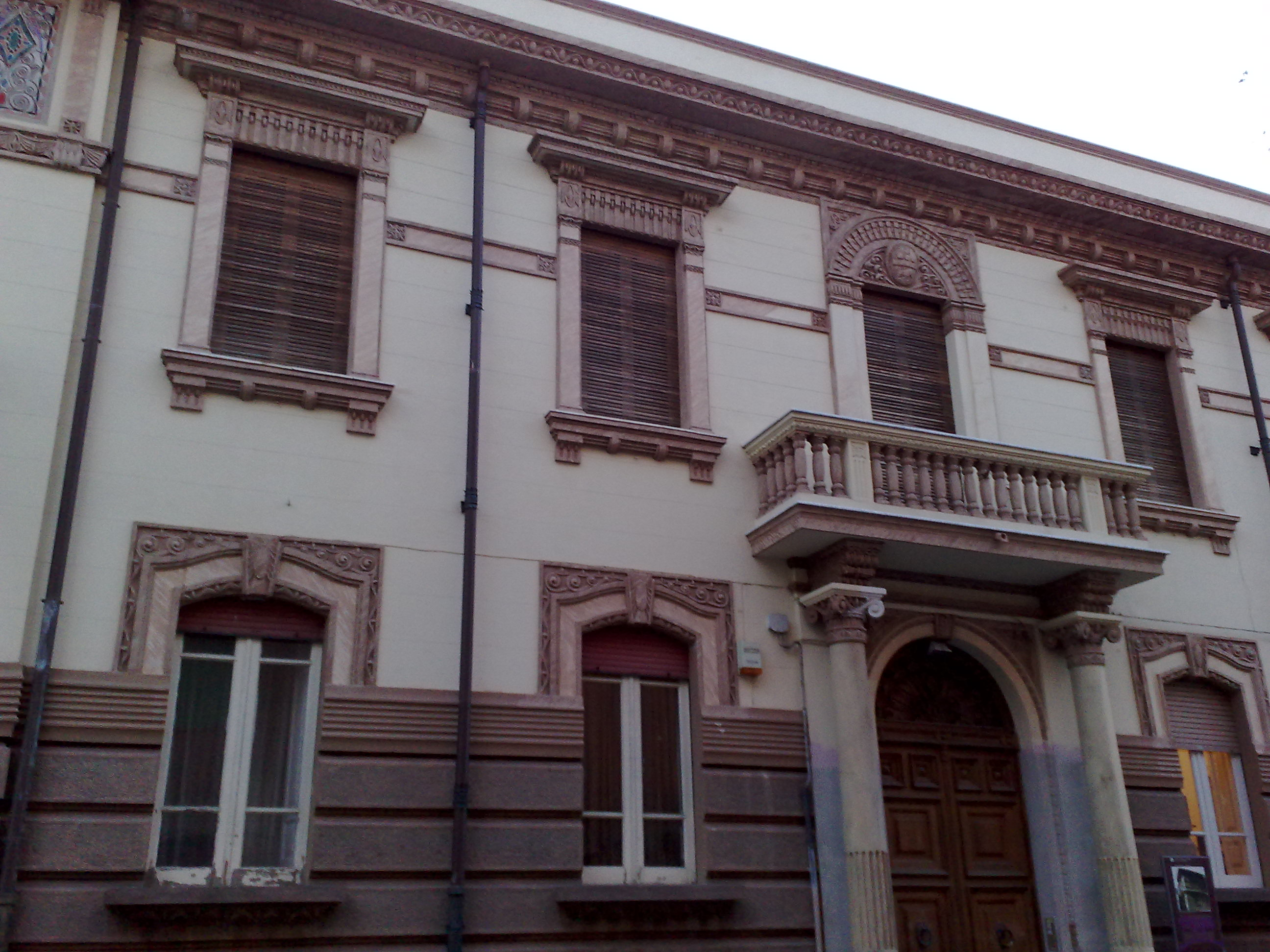 Palace Miccoli-Bosurgi in Reggio Calabria